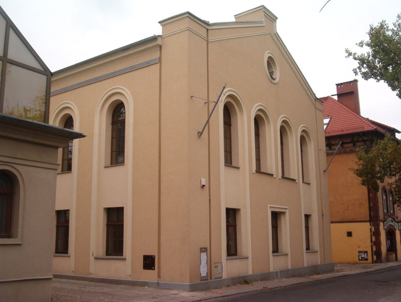 Old Synagogue in Opole